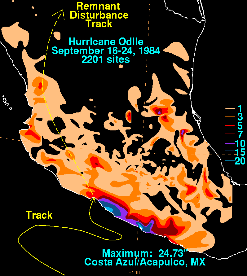 Storm total rainfall map of Hurricane Odile during September 1984.